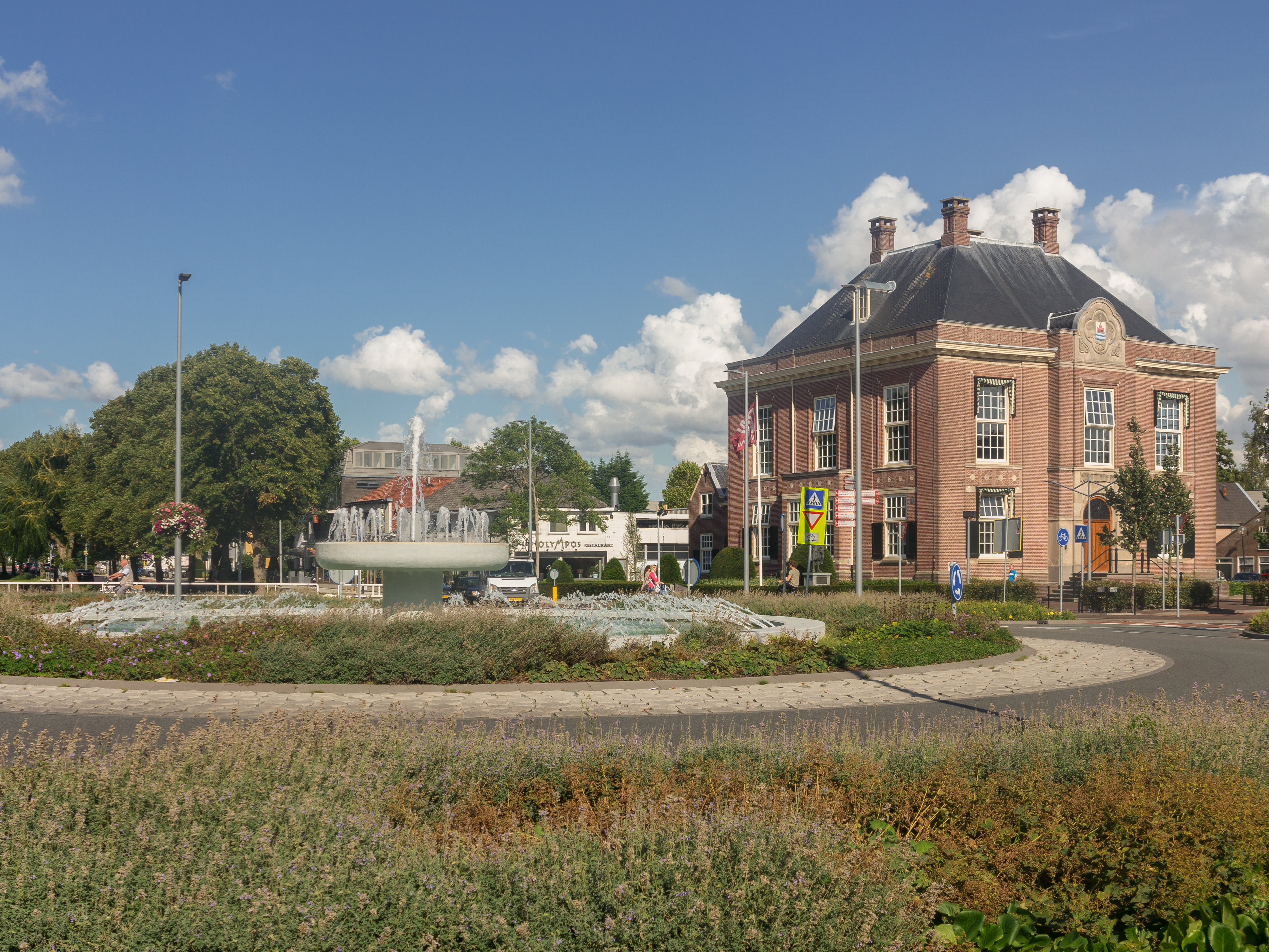 Hoofddorp., building for the water board (het Polderhuis)